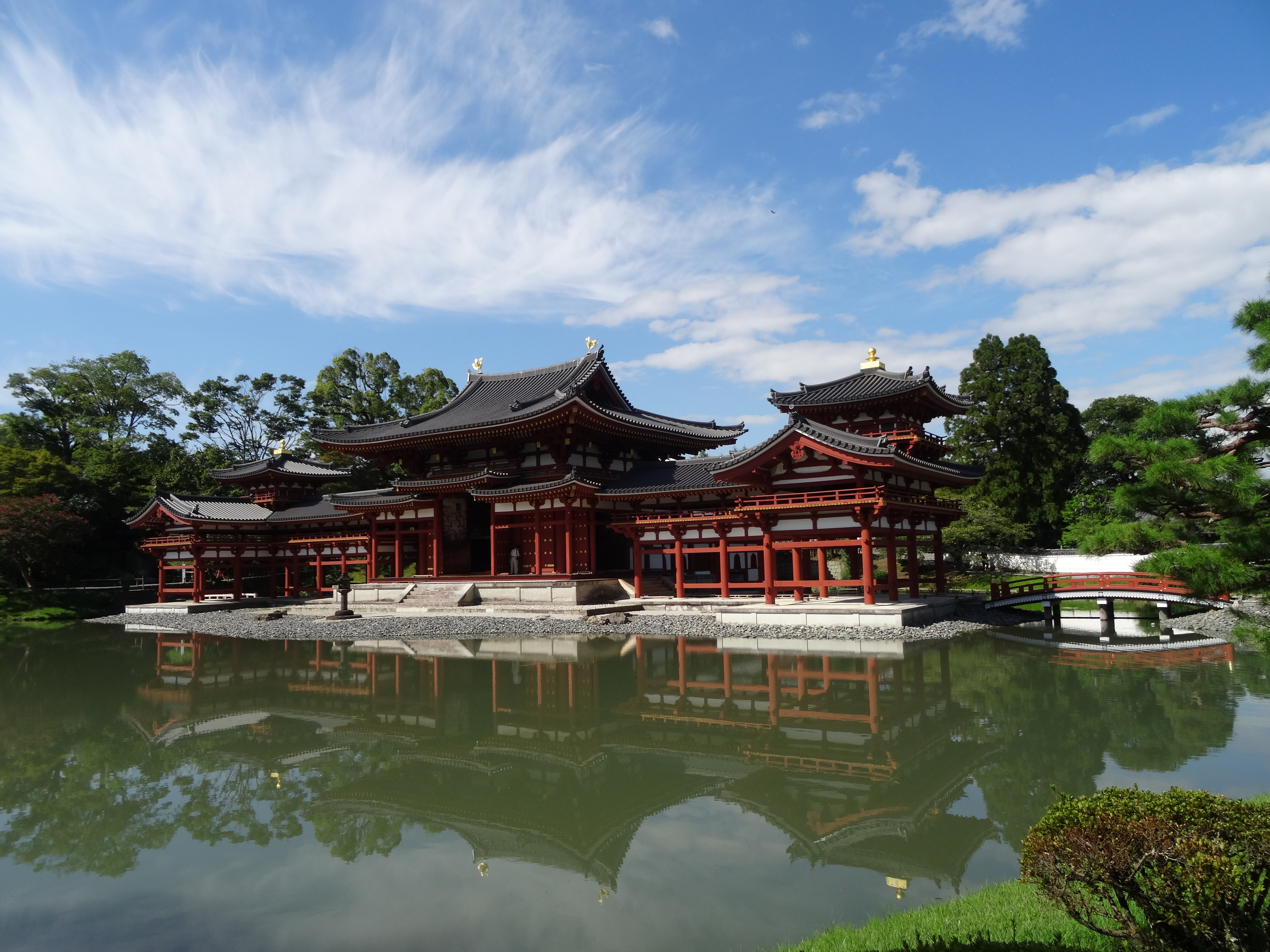 Renovated Phoenix Hall of the Byōdō-in Temple in Uji, Japan. September 2014